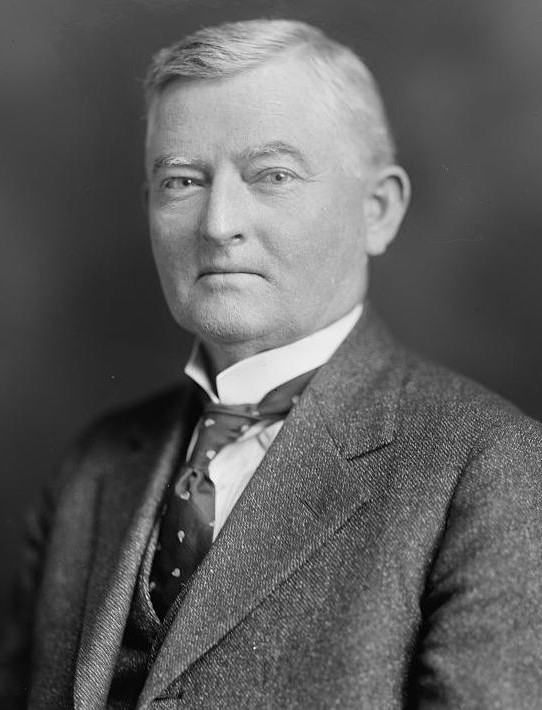 Cropped photograph of John Nance Garner from the Harris & Ewing Collection.